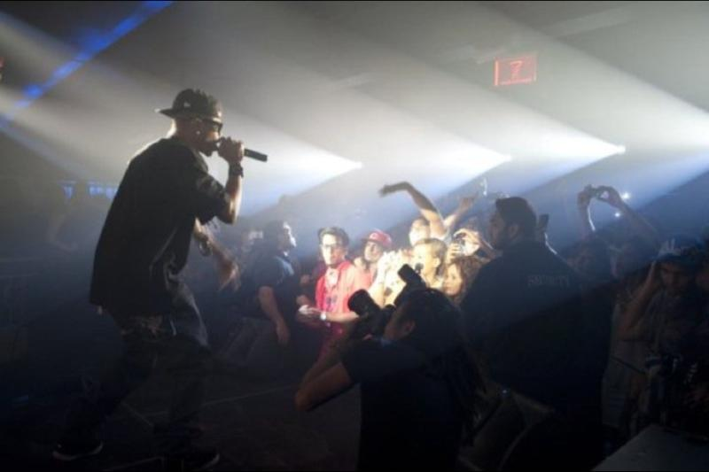 Grammy award winner Chamillionaire performing at the launch event of Doka Records operations in Dubai.